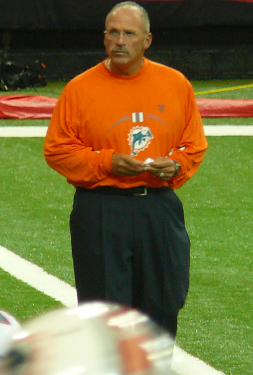 If used somewhere other than Wikipedia, Nelson, by name.